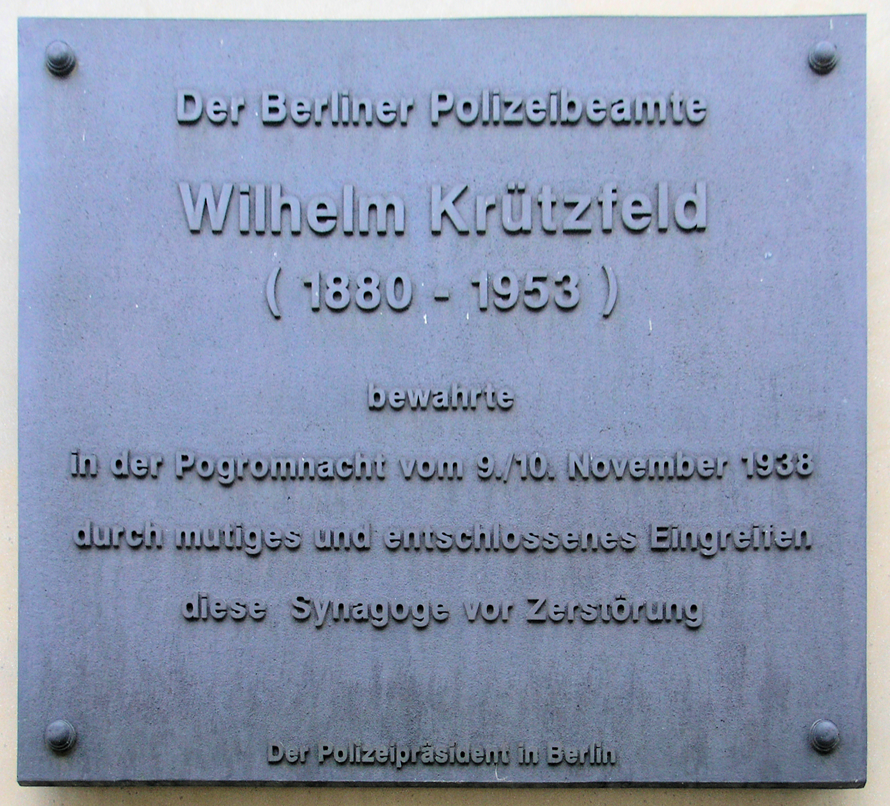 Memorial plaque, Wilhelm Krützfeld, Oranienburger Straße 28, Berlin-Mitte, Germany Koordinate:52°31′29″N 13°23′40″E / 52.52472°N 13.39444°E